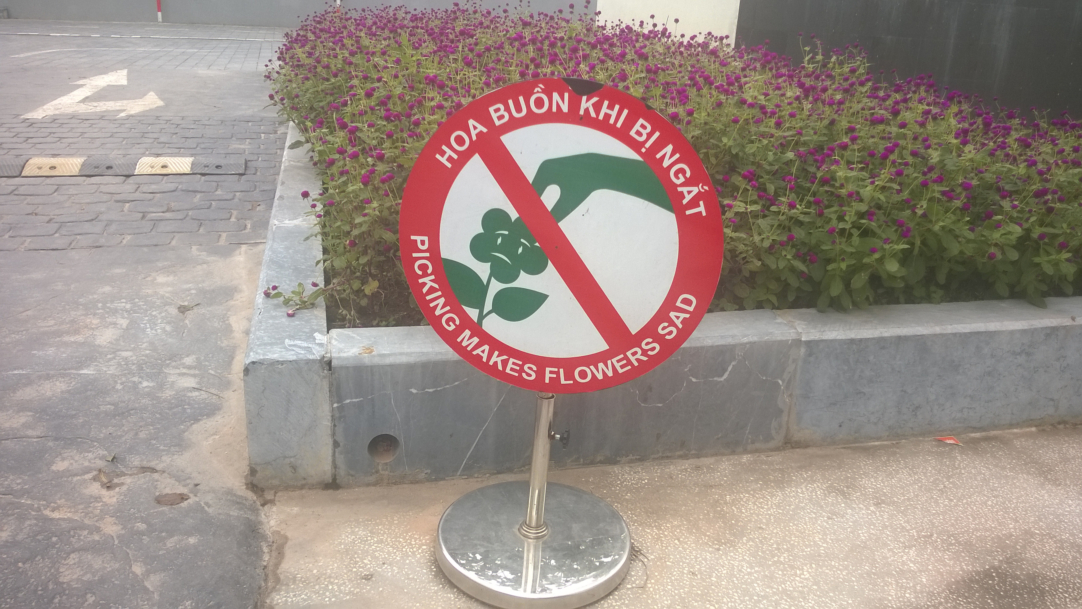 A Sign prohibiting the picking of flowers in Hung Yen in 2014.